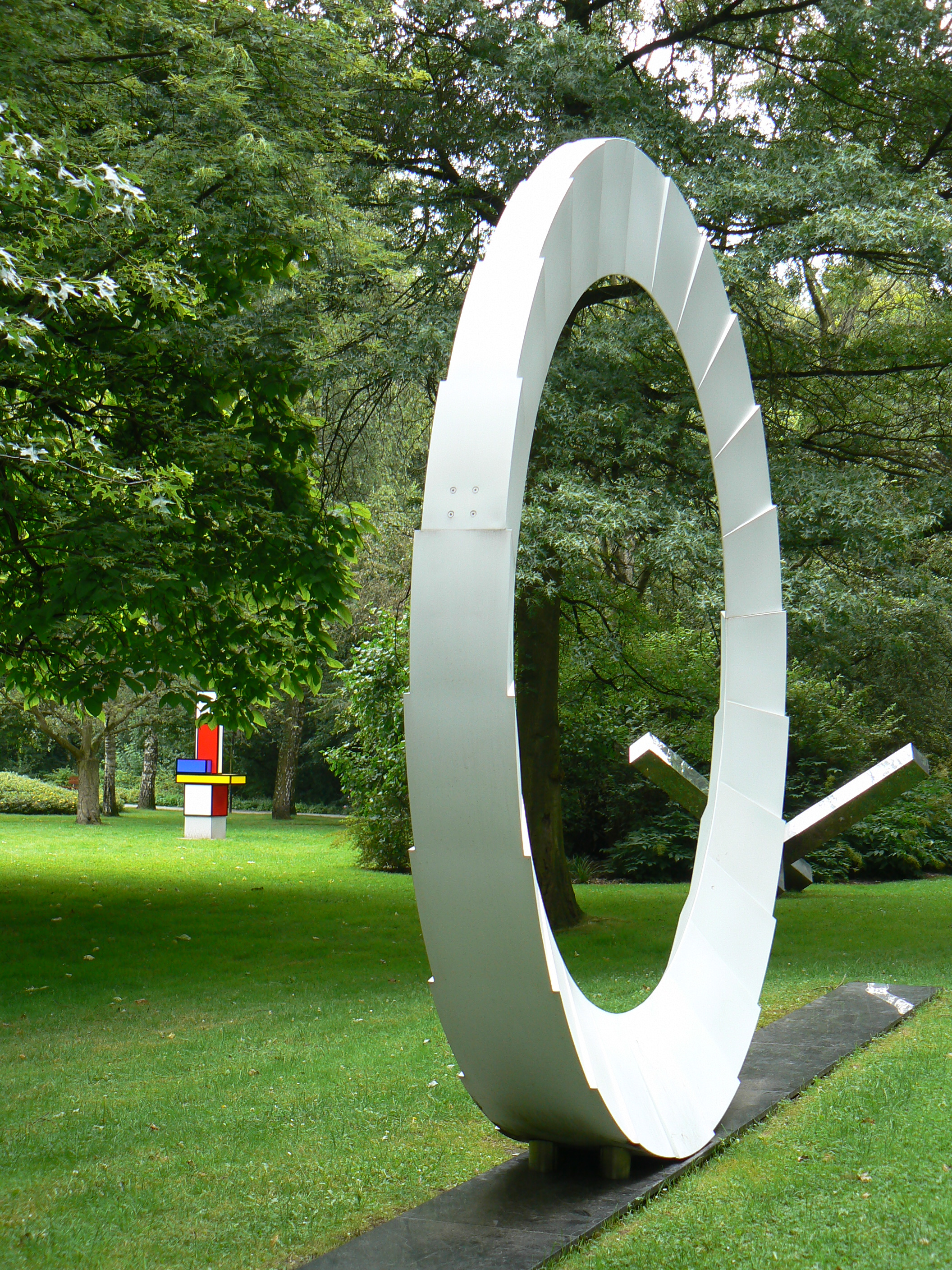 sculpture Scultura Progretto No. 205 (1974) by Marcello Morandini in sculpture park at Quadrat Bottrop in Bottrop/Germany